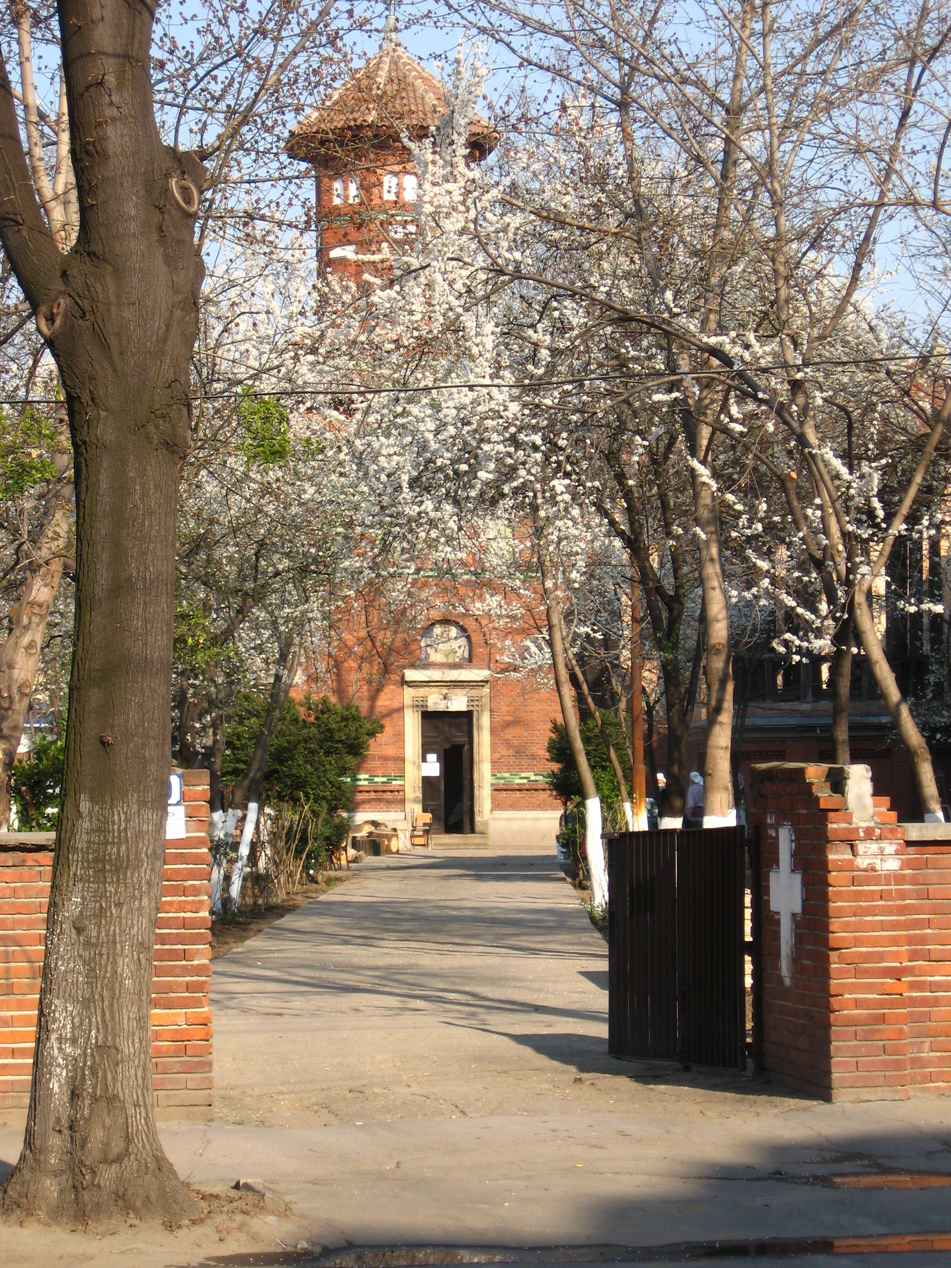 The Greek-Catholic Cathredal of Saint Basil the Great in Strada Polonă, Bucharest.